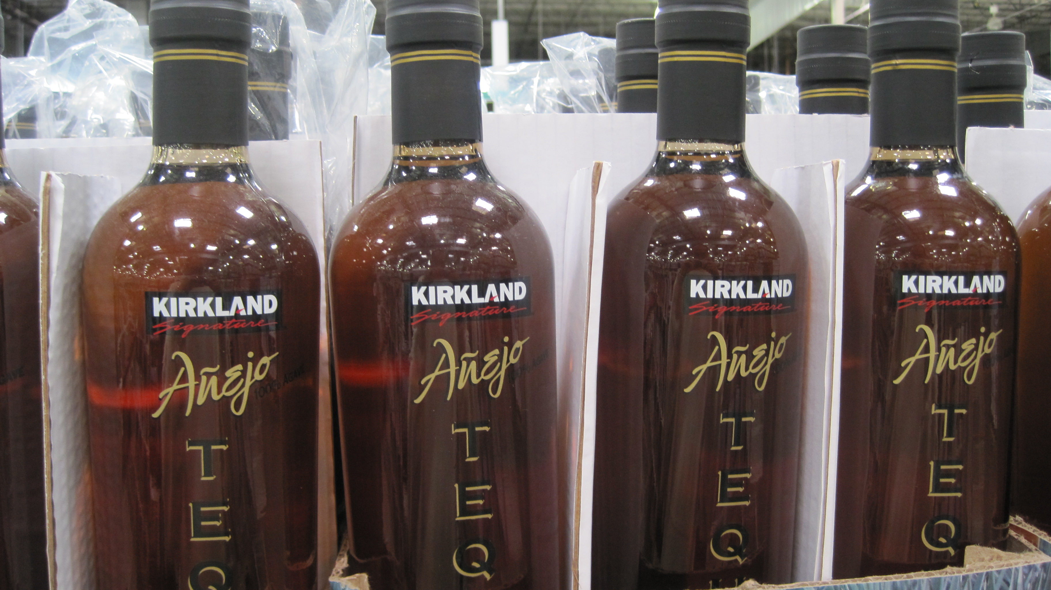 Kirkland Signature Tequila Añejo from Costco.